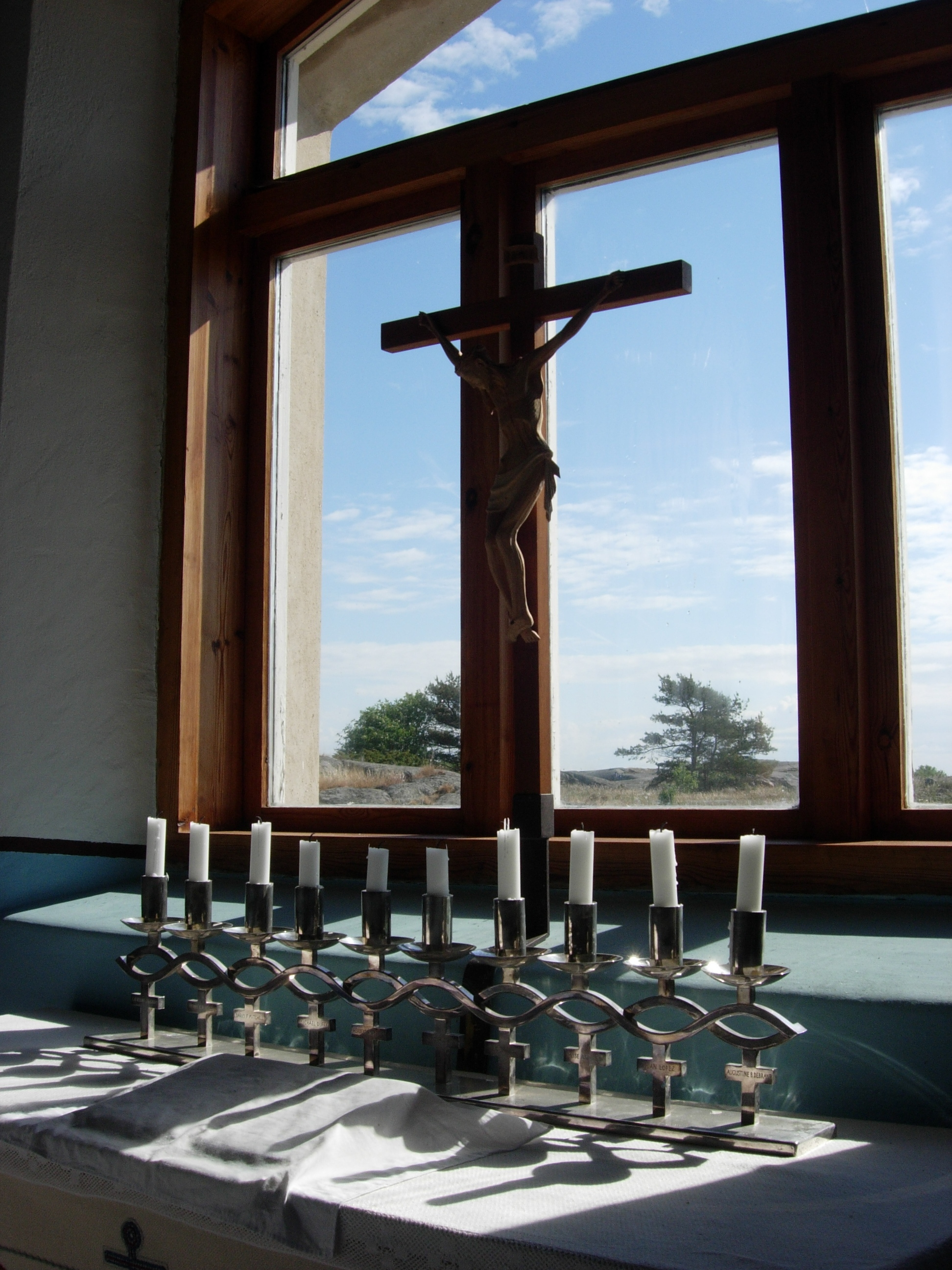 A candelabrum in Utö church, memorating the 10 seamen who died in the shipwreck of Park Victory in 1947. The names of the men are carved on candelabrum.